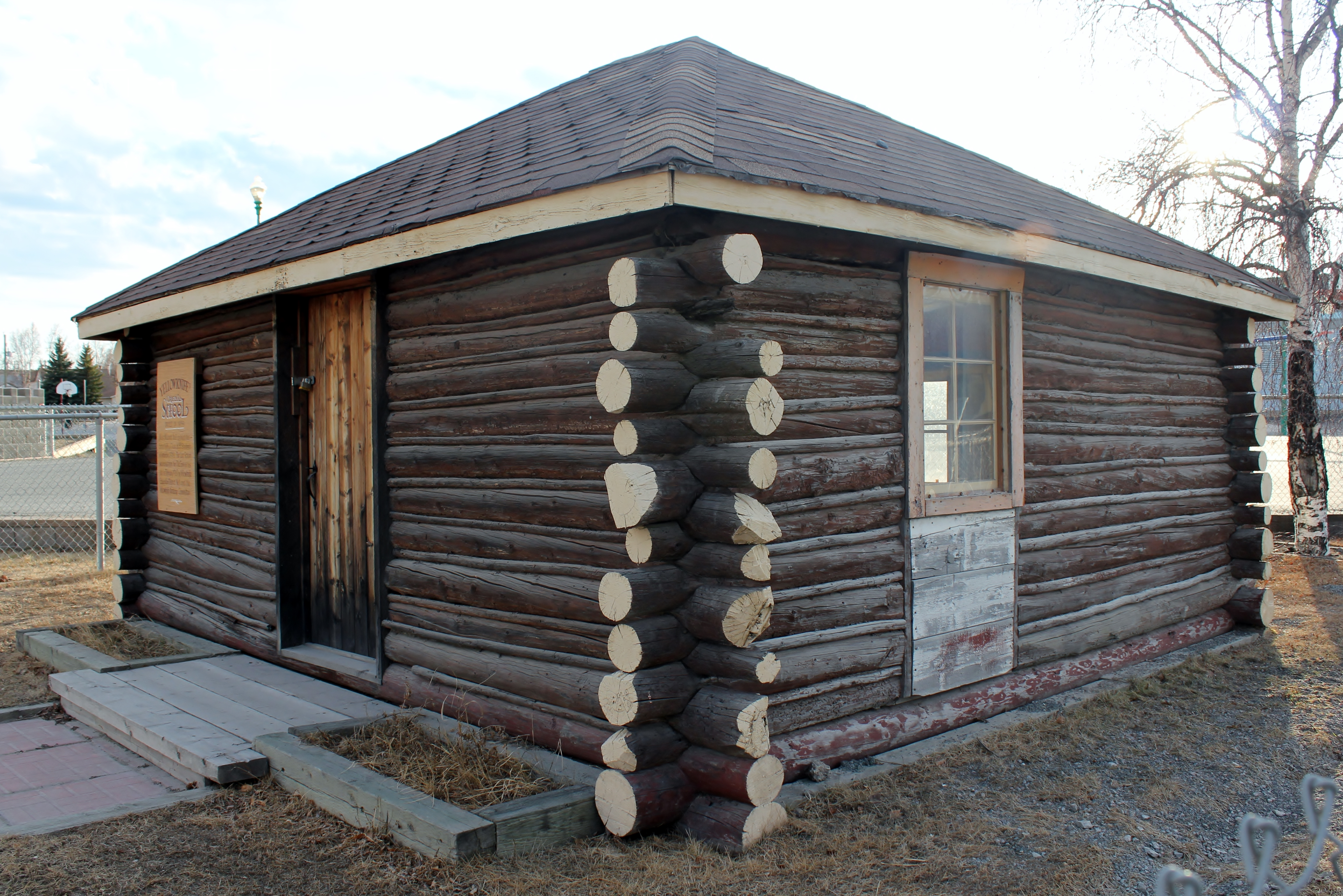 Yellowknife's first public school